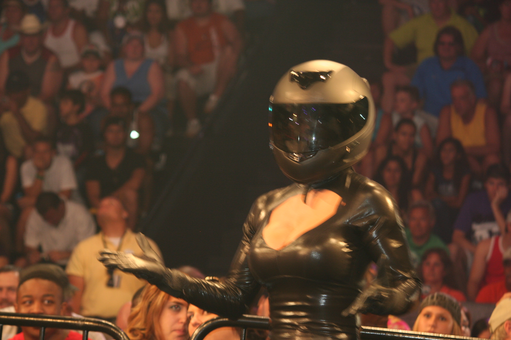 Professional wrestler Tara at a TNA Impact! taping